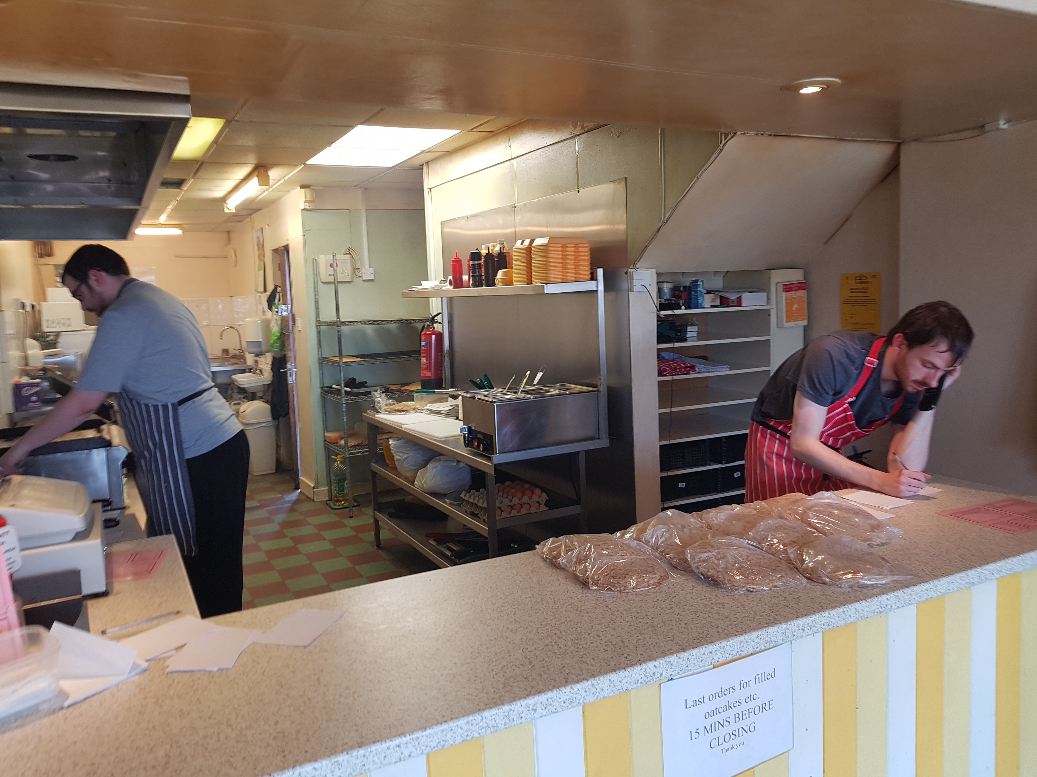 Oatcake shop interior in Fenton 2019. Oatcakes to take away or to be filled.